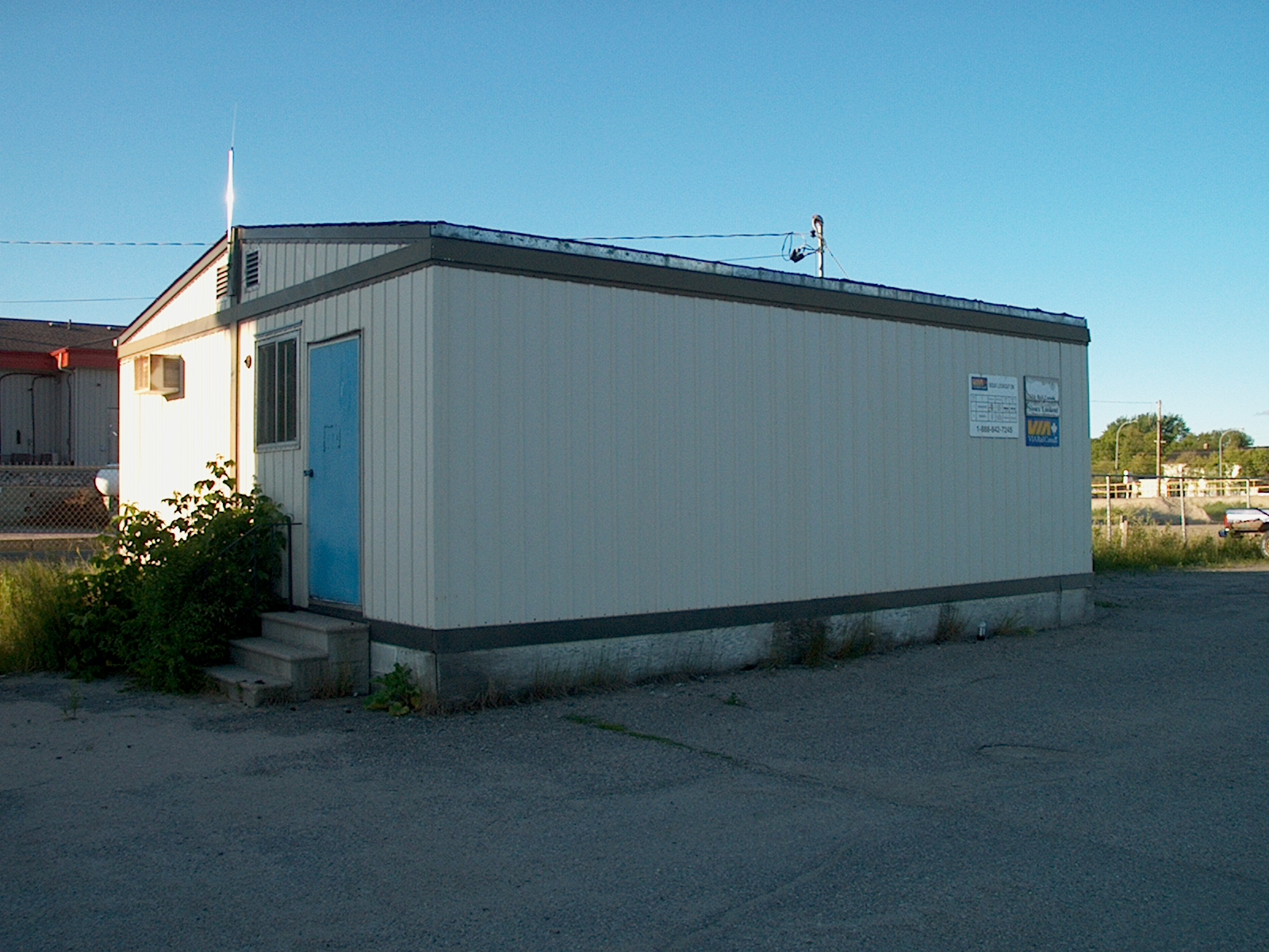 VIA Rail passenger shack in Sioux Lookout, Ontario.